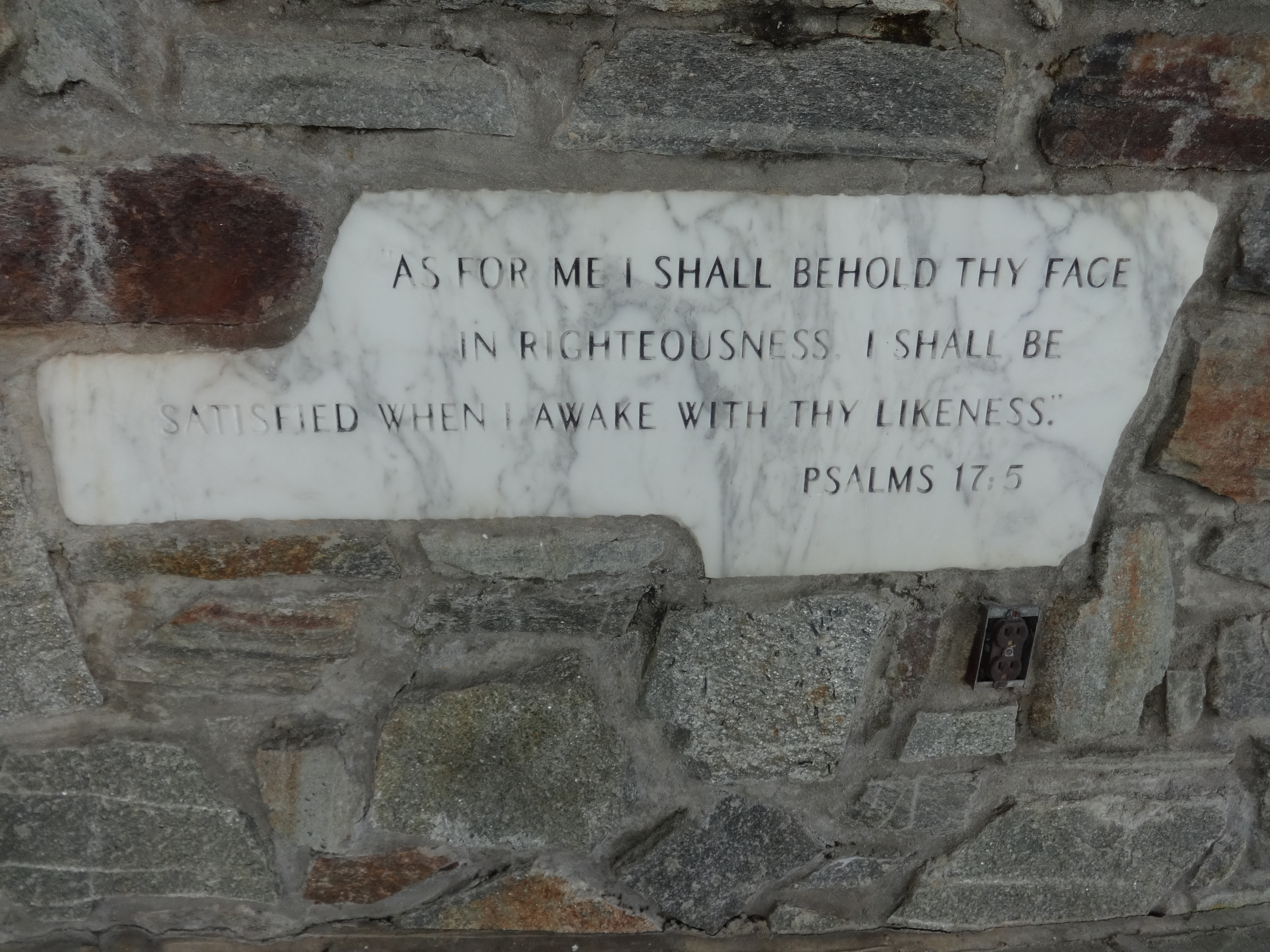 Beth Jacob Cemetery, Finksburg, Carroll County, Maryland.